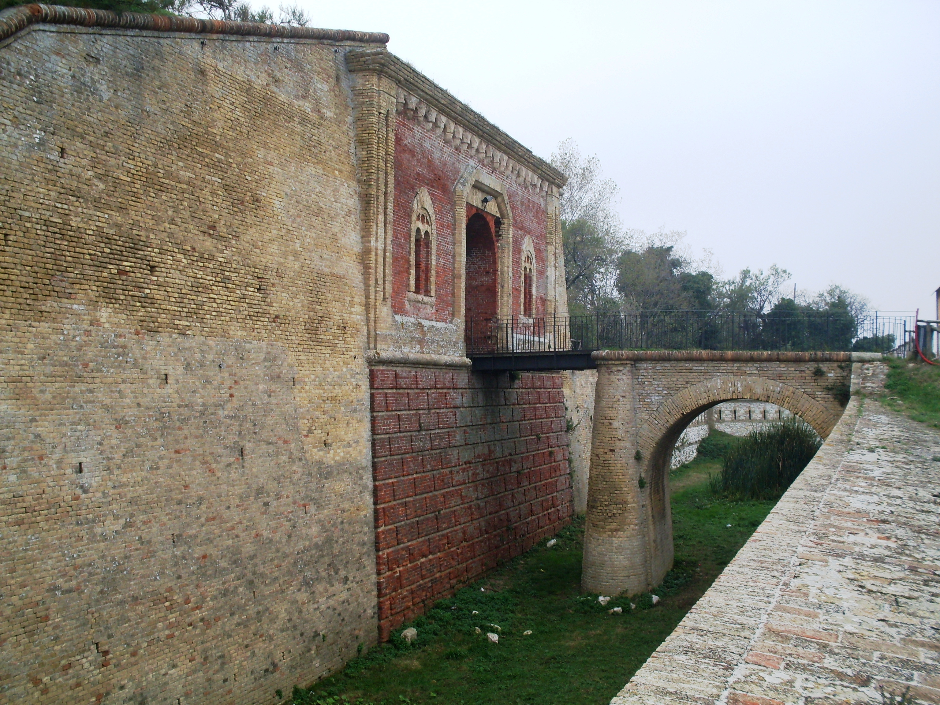 Italy Ancona Fort Altavilla 1863